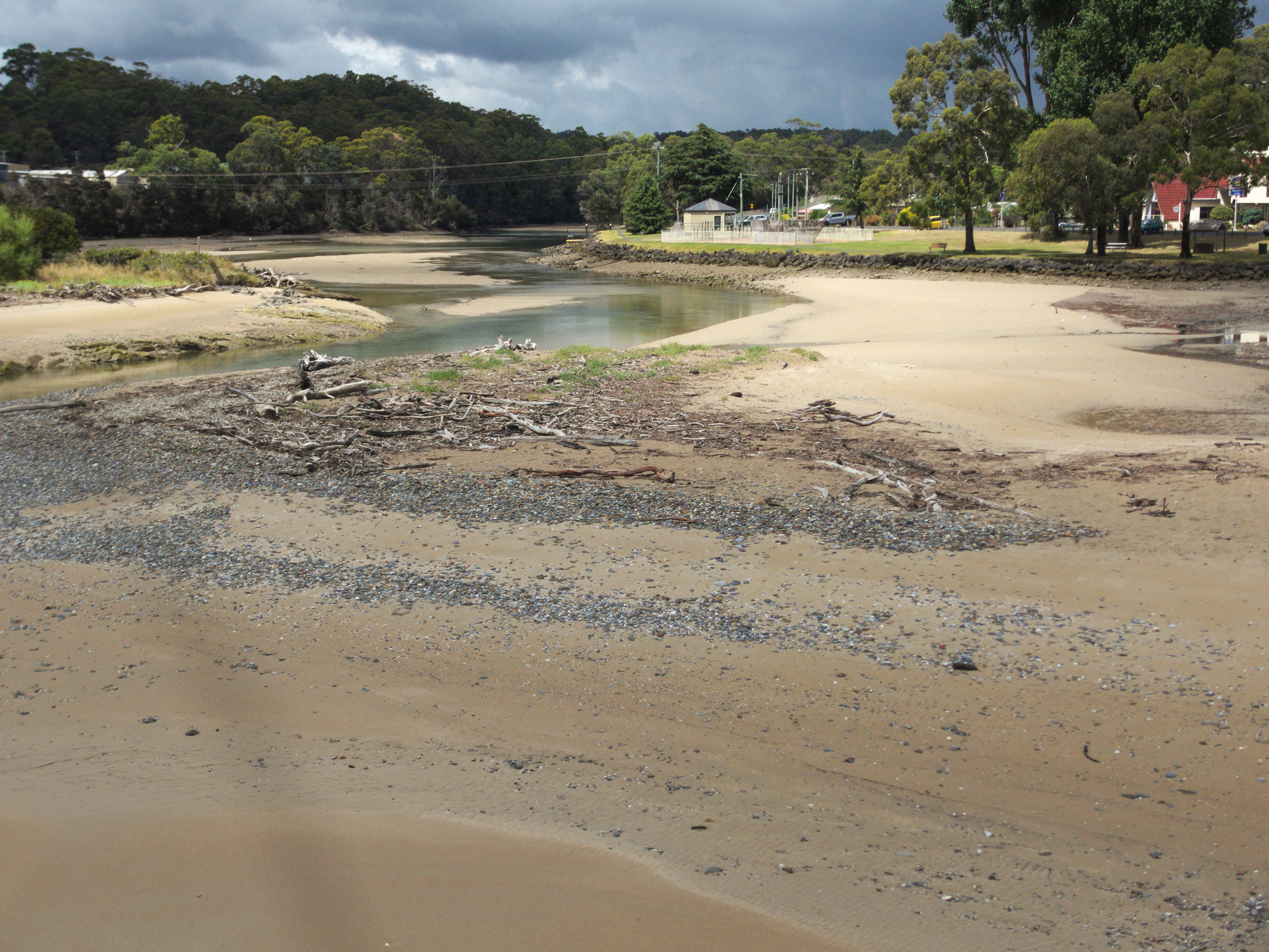 Cam River, Tasmania, near its mouth, looking upstream (south) from the Bass Highway bridge.